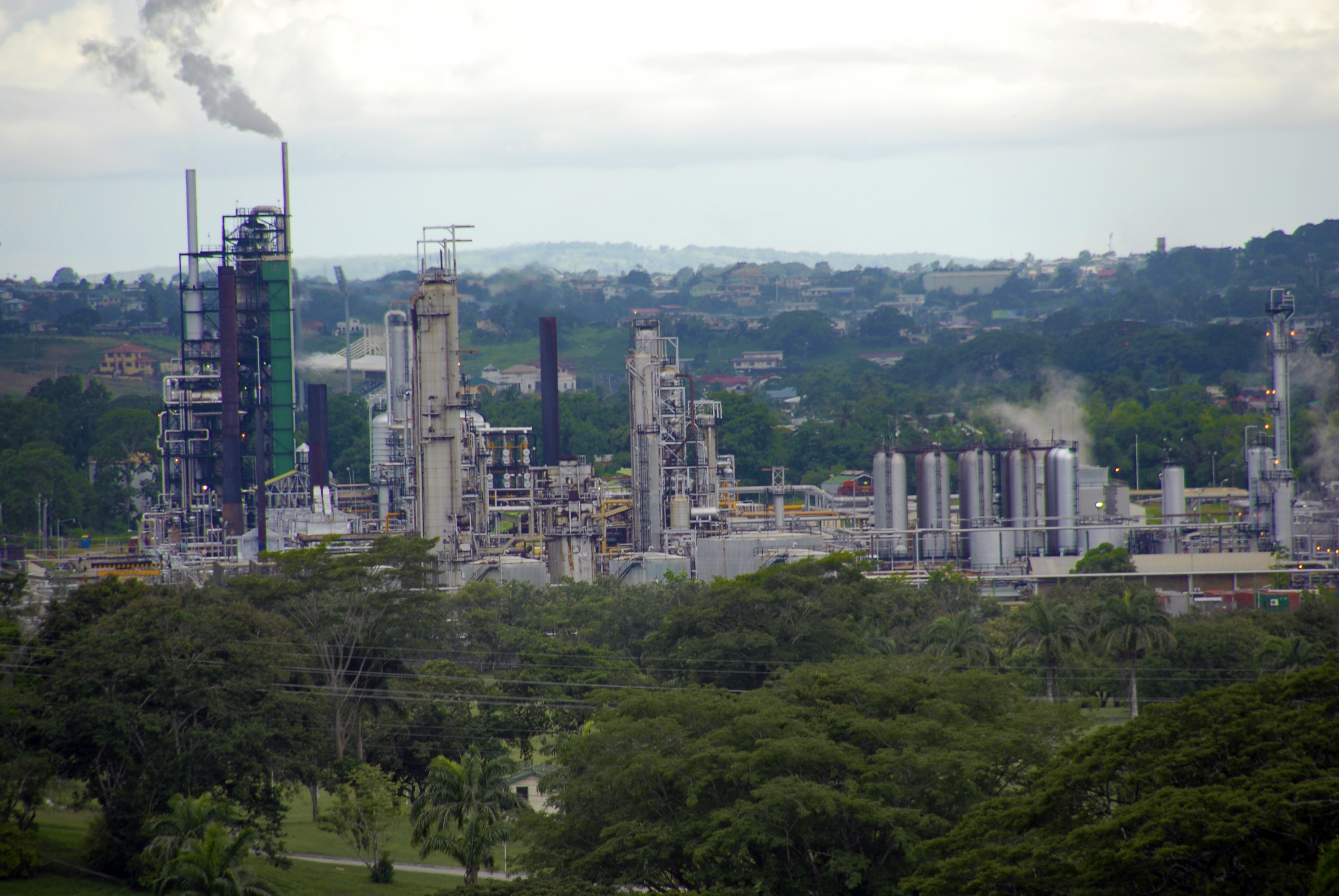 source: self date: unknown description: oil refinery at Pointe-a-Pierre Trinidad